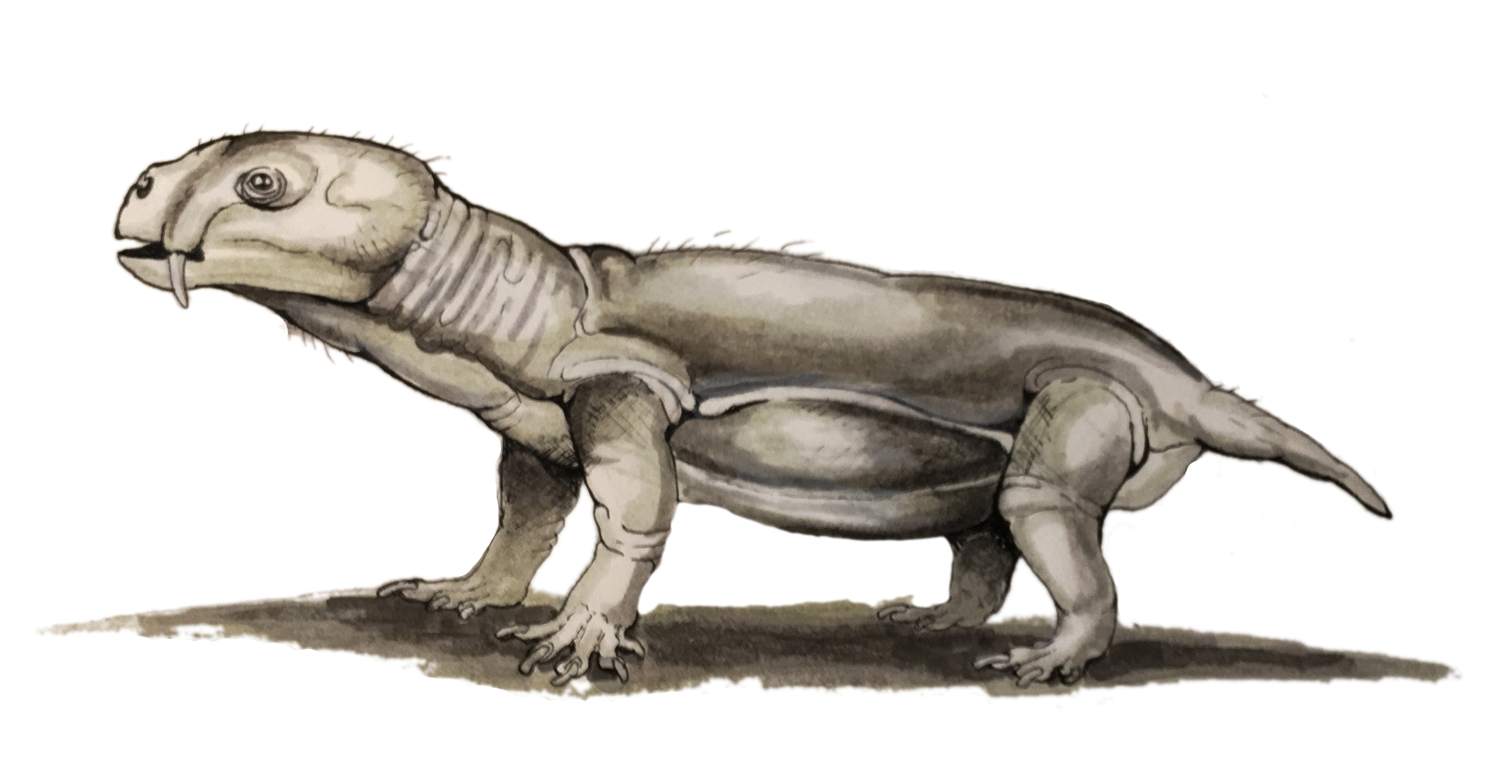 A reconstruction of the dycynodont Eosimops newtoni.